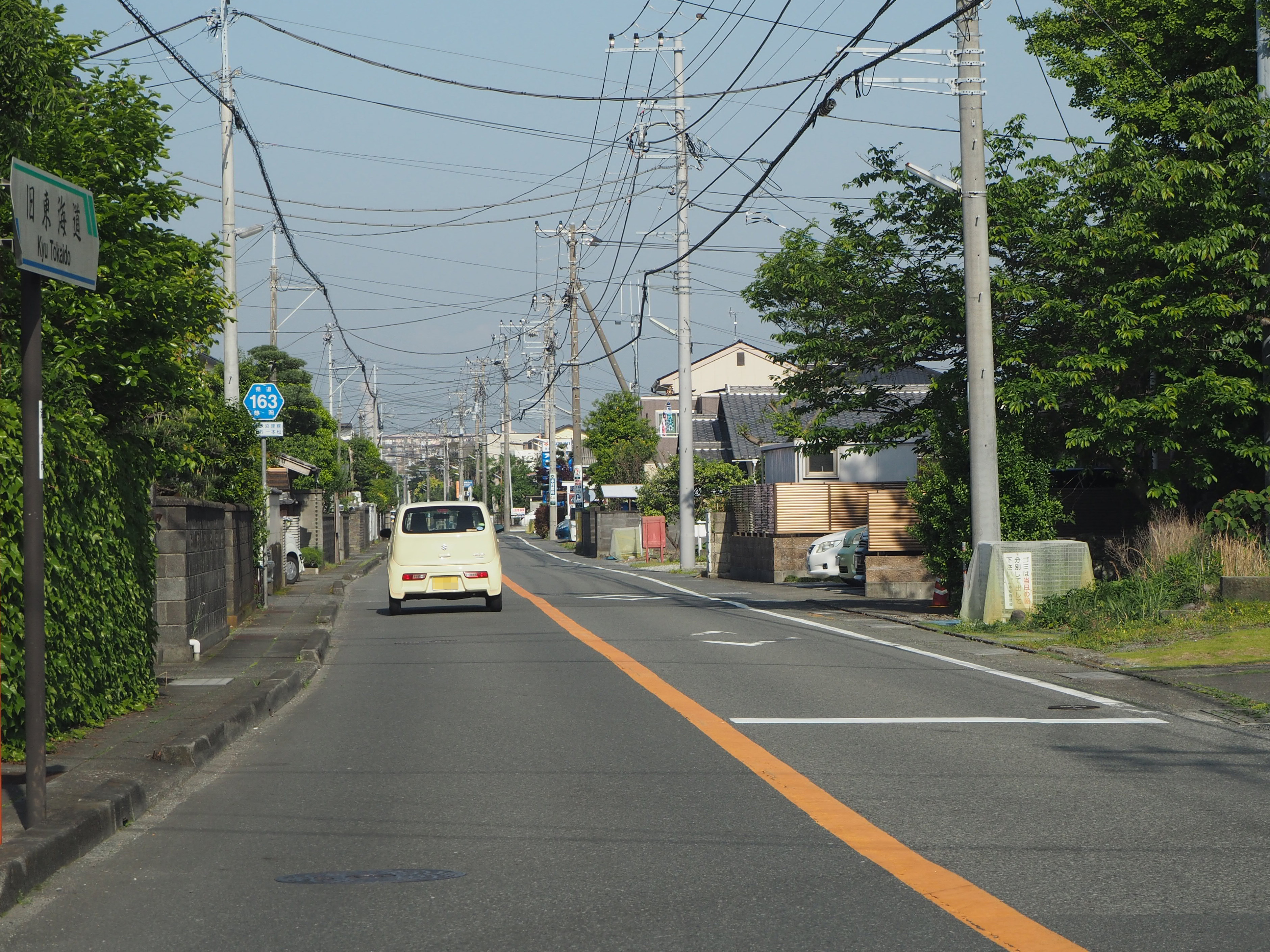 Shizuoka prefectural road Route 163